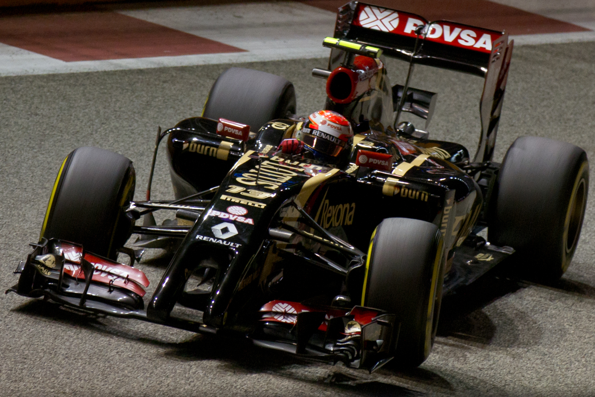 Formula One 2014 Rd.14 Singapore GP: Pastor Maldonado (Lotus)